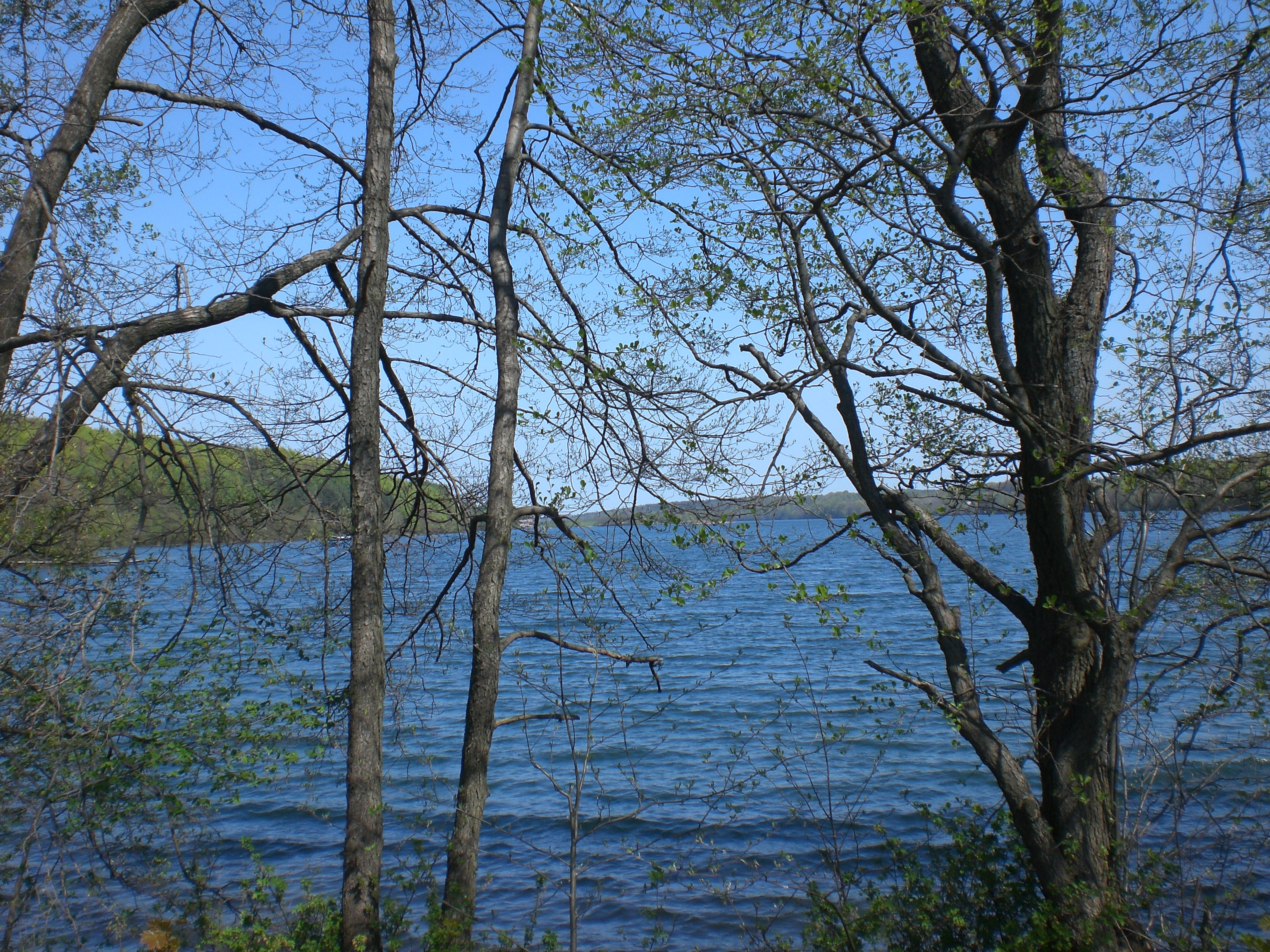 Raduńskie Dolne Lake